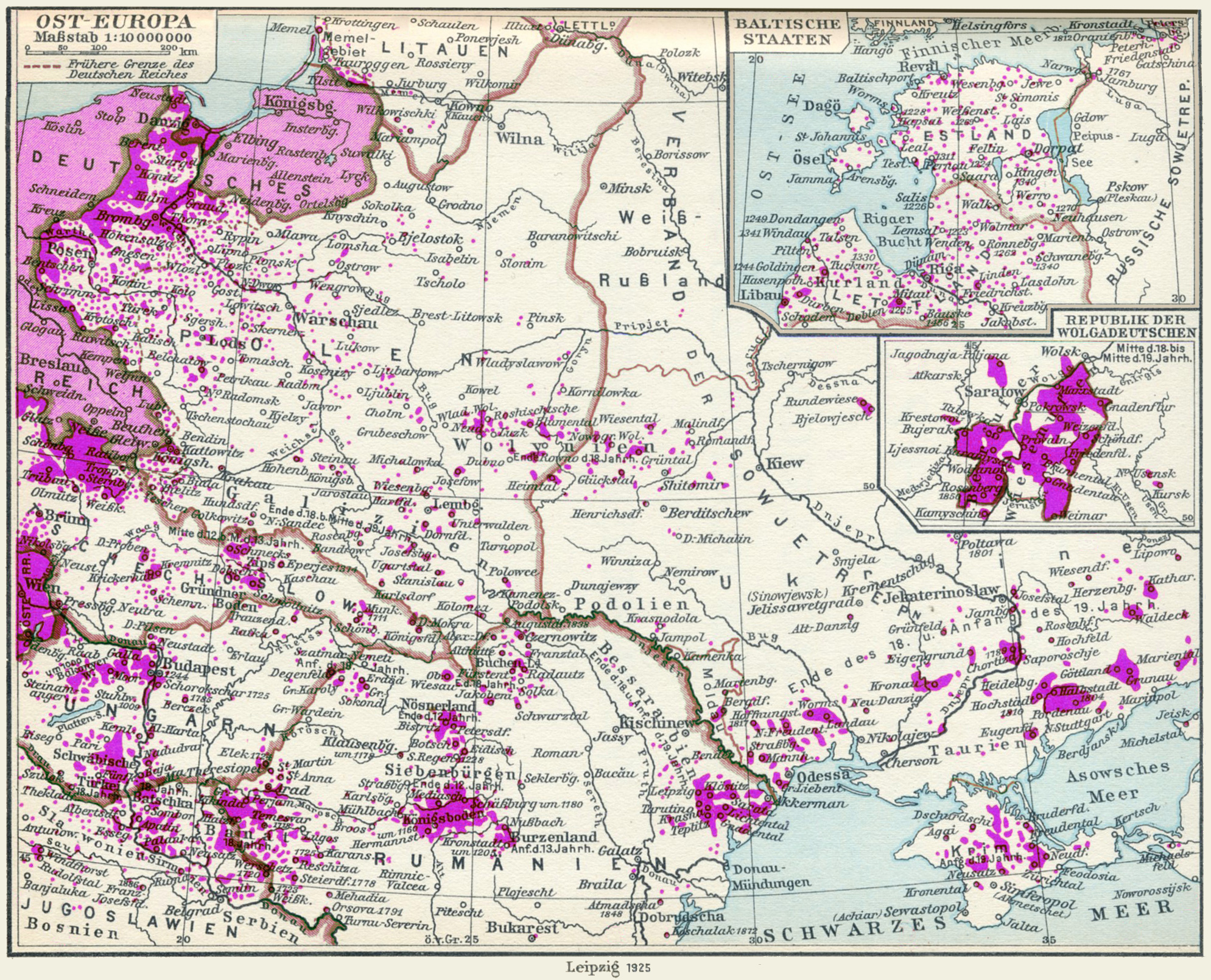 German minorities in Eastern Europe 1925, since a german map